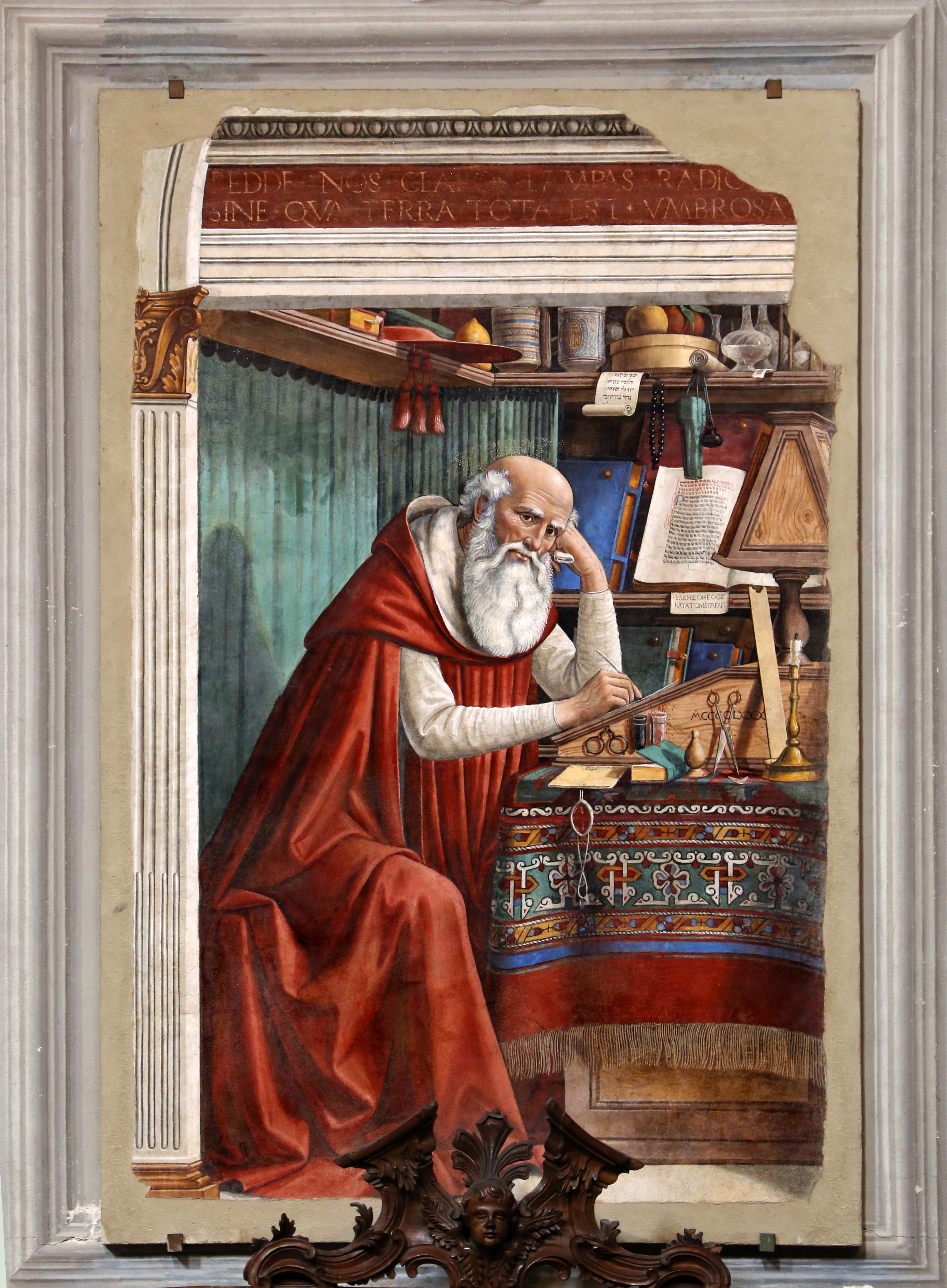 Ognissanti (Florence) - Interior